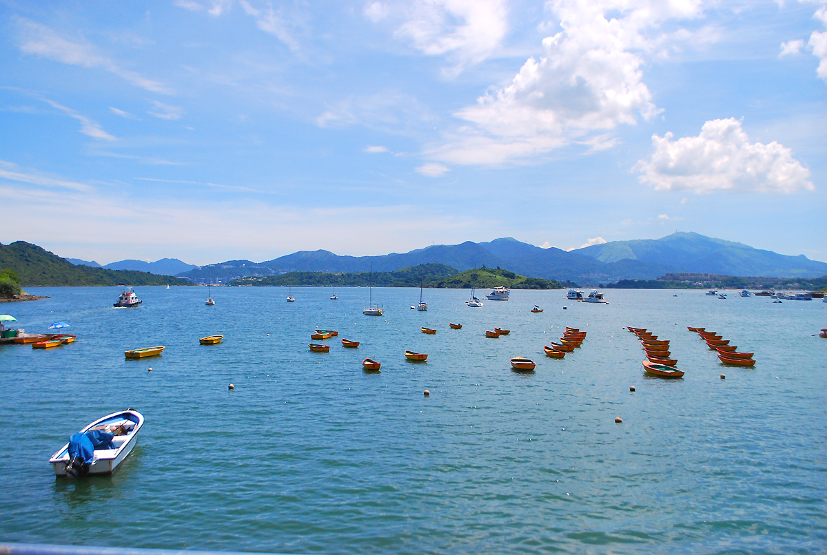 Plover Cove Country Park, taken in Tai Mei Tuk, Tai Po, Hong Kong.